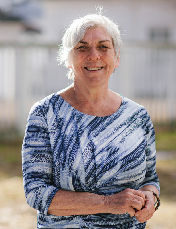 Birte Simonsen, b.1948, politician for Miljøpartiet De Grønne (Green Party, Norway) in Vest-Agder. Photo: Thomas EkströmNorsk bokmål: Birte Simonsen, f.1948 Stortingsvalget 2017 i Vest-Agder, 1. kandidat for Miljøpartiet De Grønne i Vest-Agder ved Stortingsvalget 2017, Vest-Agder MDG. Foto: Thomas Ekström